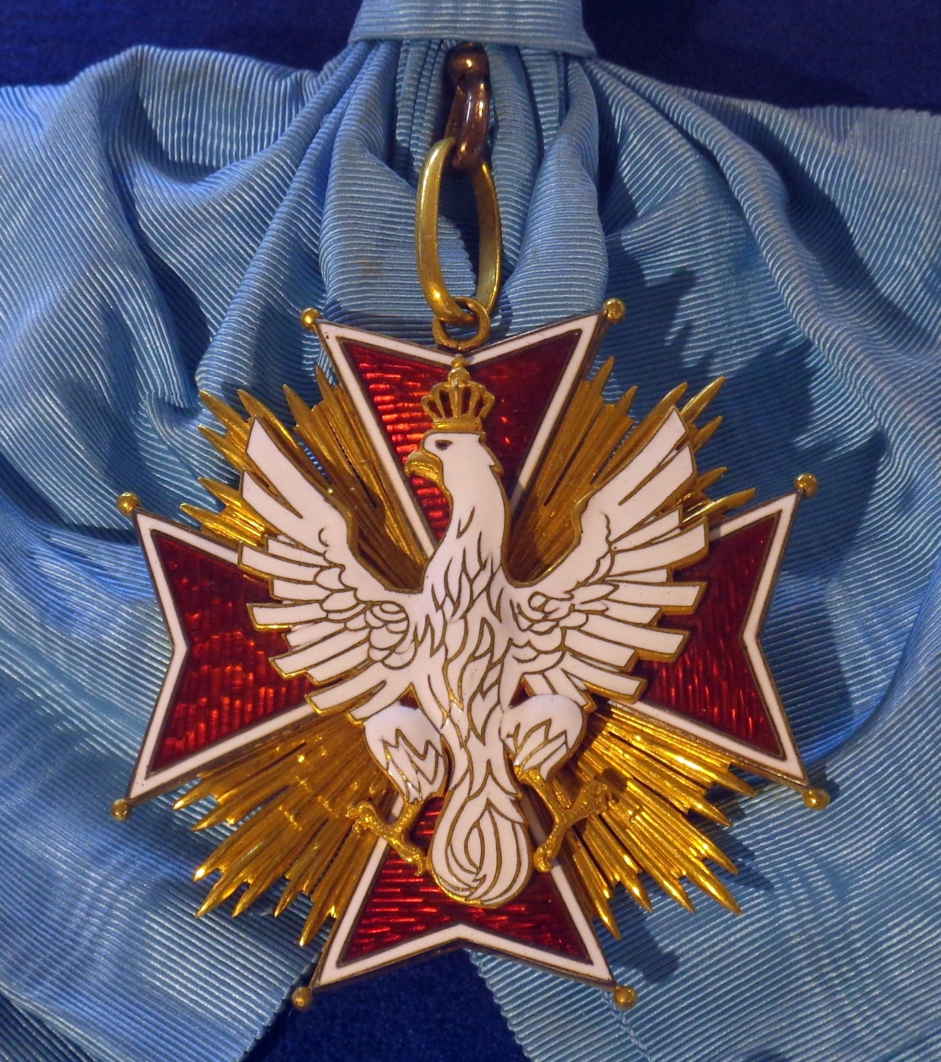 Order of the White Eagle, badge, 1921-1939. Republic of Poland. The exhibition of the Tallinn Museum of Orders of Knighthood, Estonia.